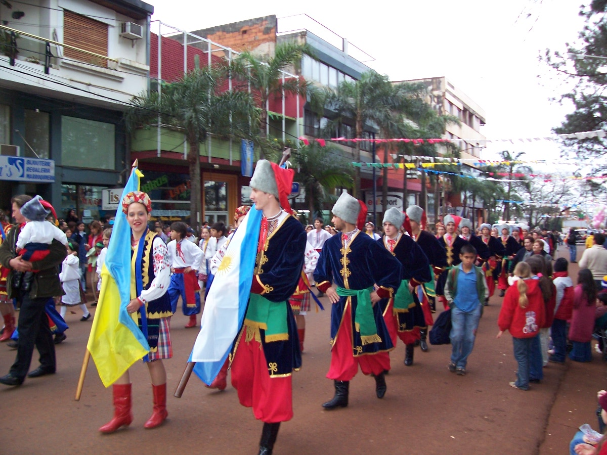 The Ukrainian colectivity, during the inaugural parade of XXVI Immigrant's National Festival, in Oberá, Misiones, Argentina.